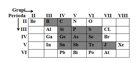 Figure 1. Renditja e elementeve gjysmëperçuese ne sistemin periodik te elementeve.